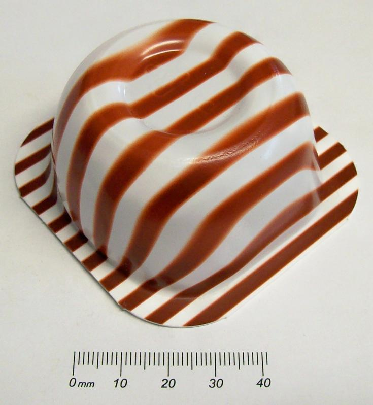 Pudding cups made of polystyrene